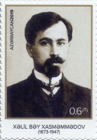 Khalil Bey Khasmammadov